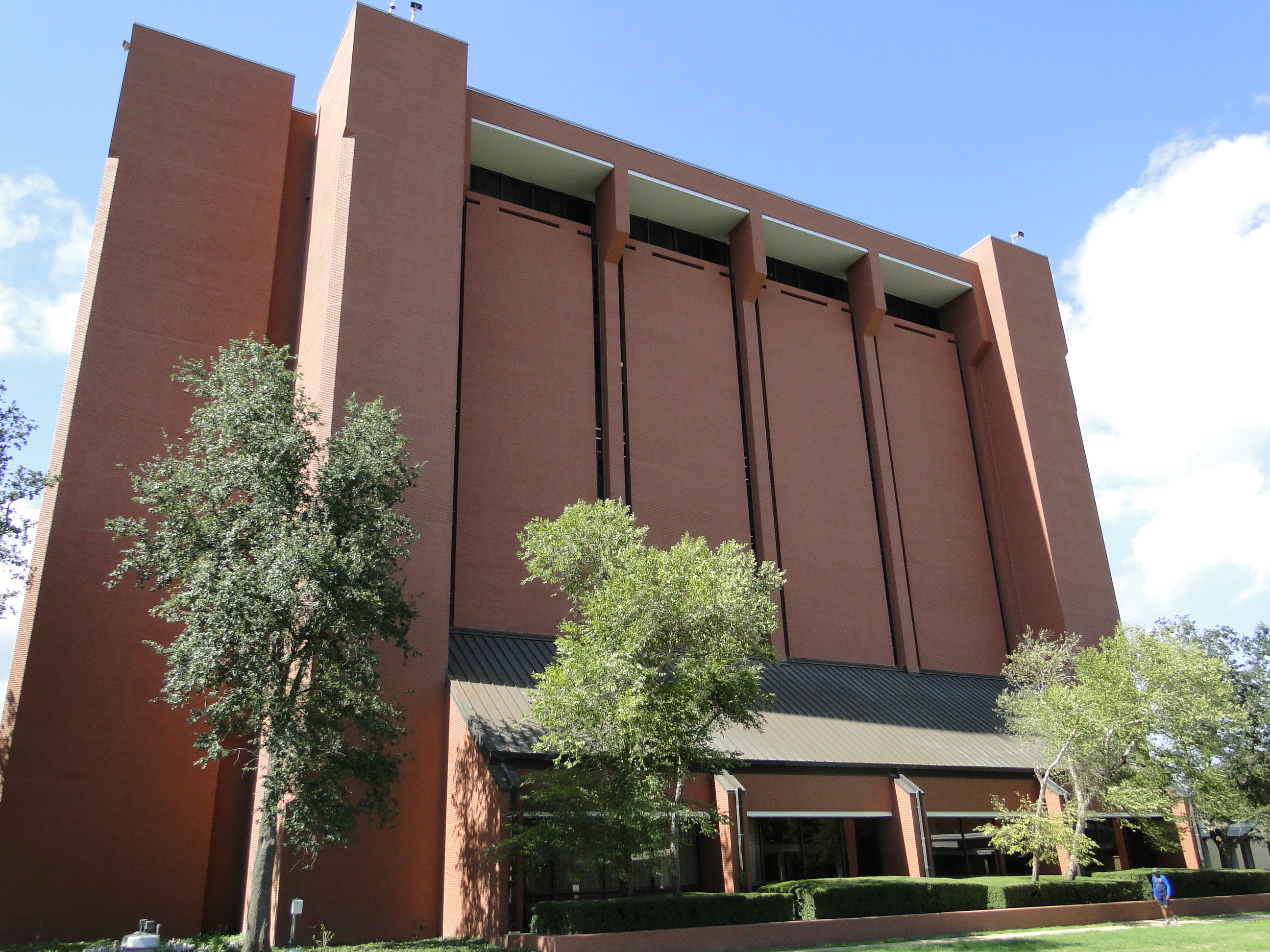 Mary and John Gray Library